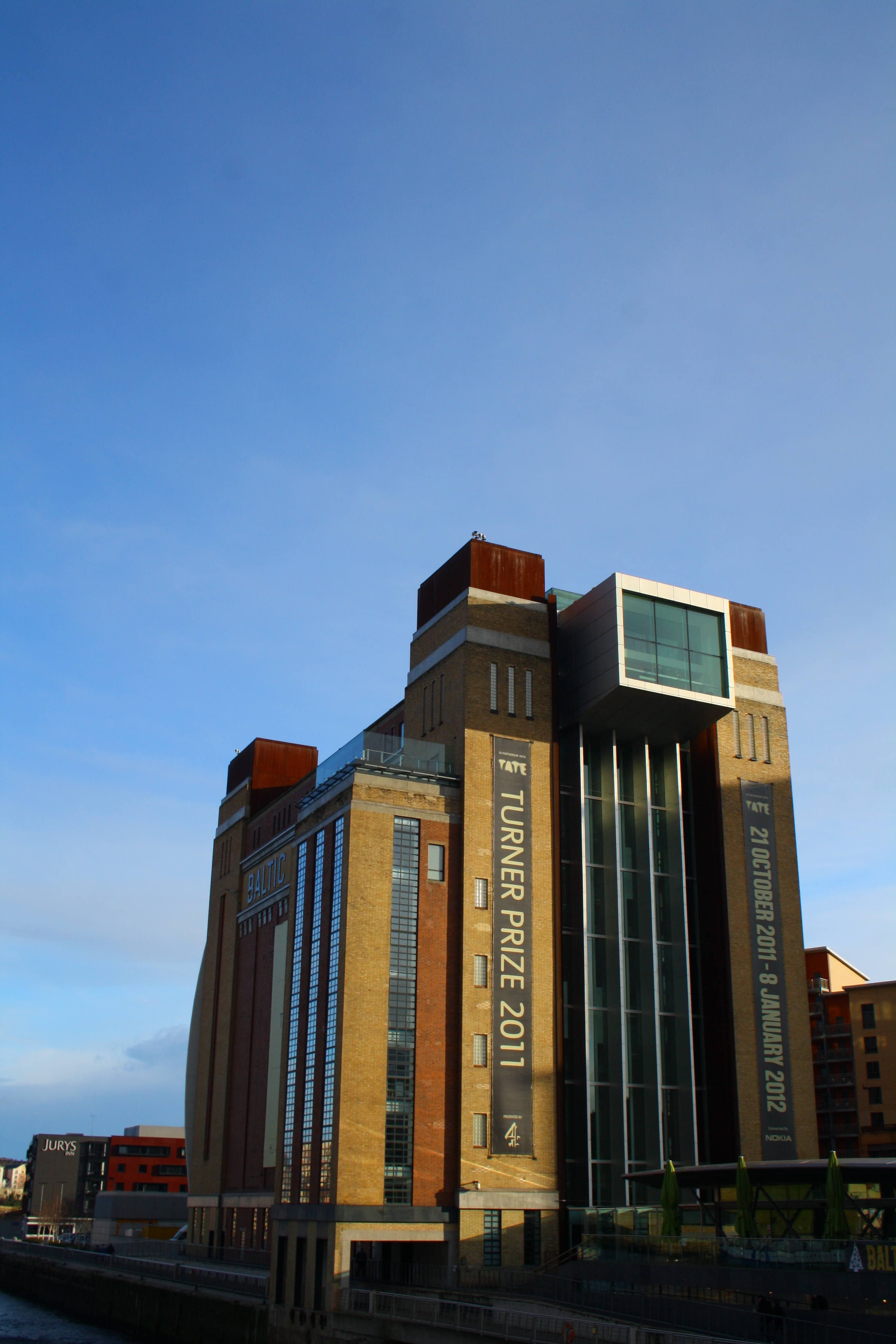 Image shows The 'Baltic centre for contemporary art'. Image taken from the millennium bridge on 04/12/2011 .